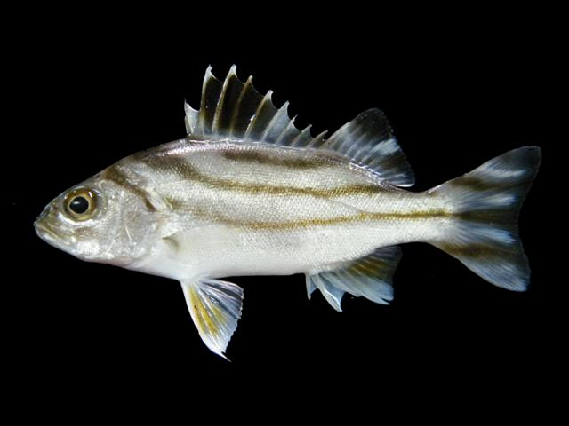 Terapon jarbua collected in Kampuan mangrove forest at Amphoe Suksamran, Ranong province, southern Thailand